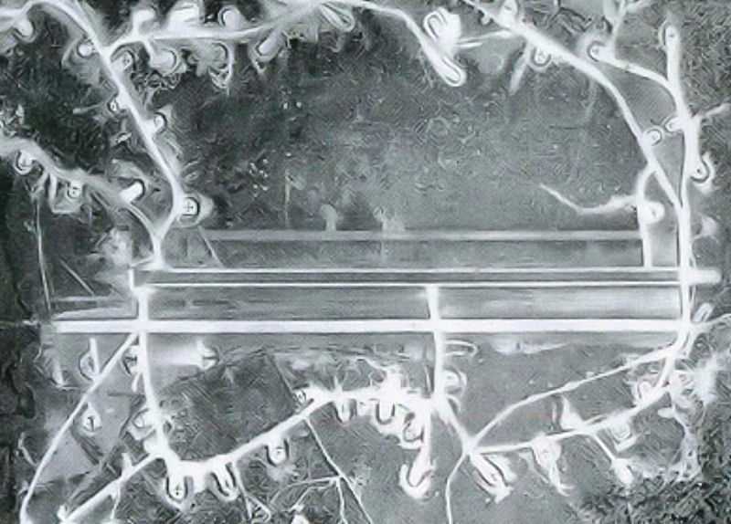 Wards Airfield - overhead - New Guinea